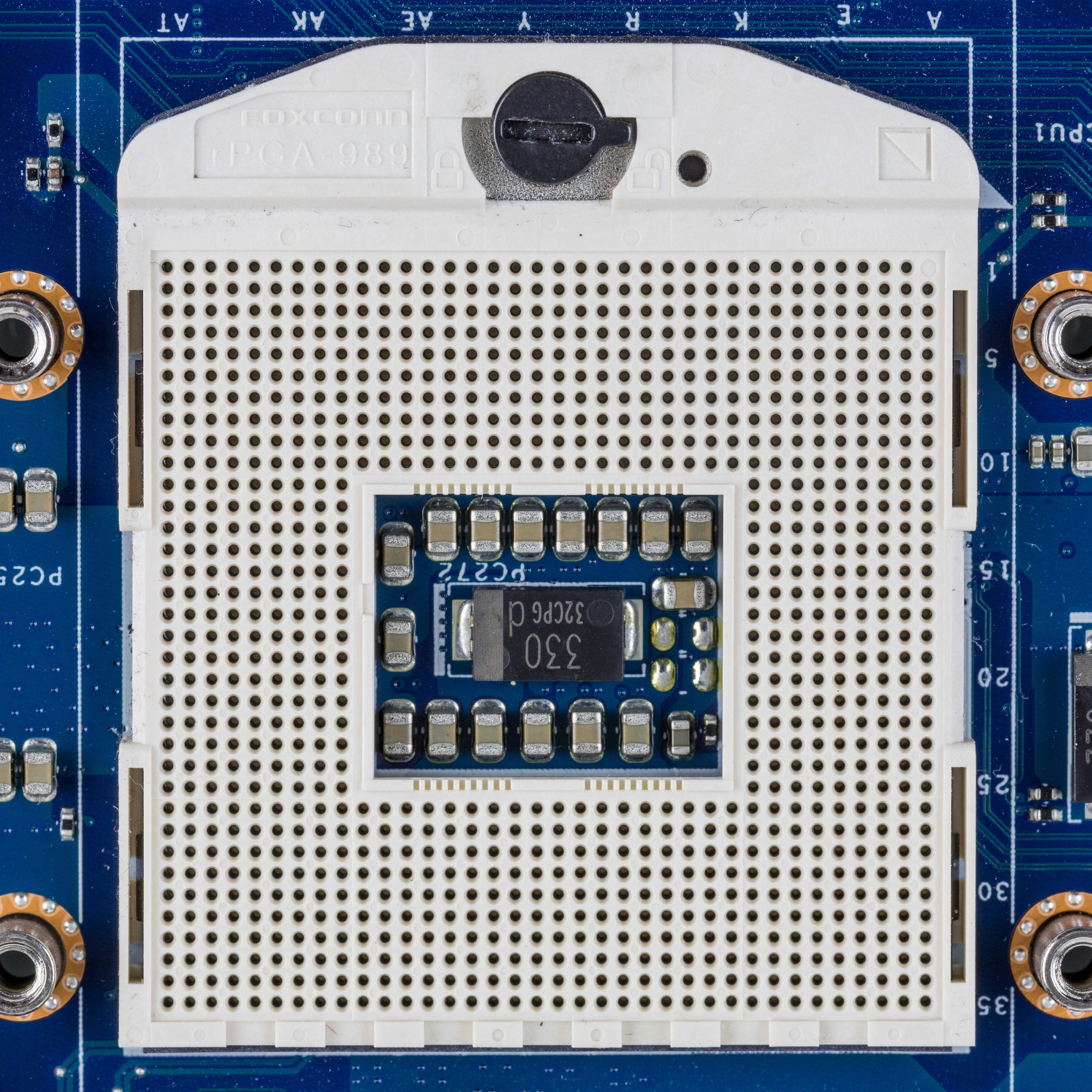 Acer TravelMate P253-M-32344G50Maks - motherboard Q5WV1 LA-7912P - Foxconn rPGA 989 - Socket that can take Socket G1/rPGA 988A or Socket G2/rPGA 988B packaged processors